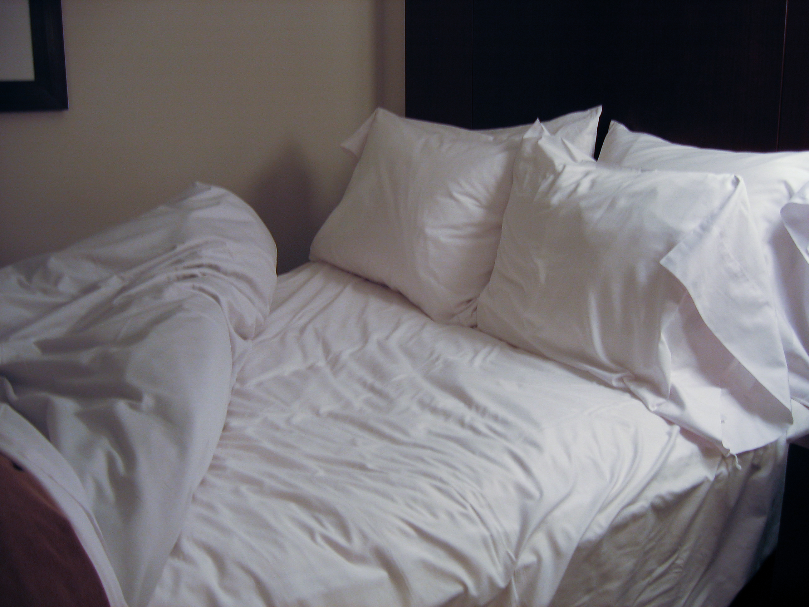 Bed made with white bed linen. Four fluffy pillows and crumpled sheet . Original description: 350 thread count sheets. Down featherbed. Down duvet. Super fluffy pillows. Ahhhhhhh.Best. Bed. Evah.